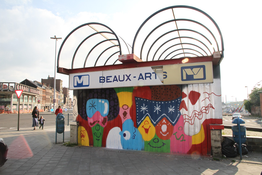 Mural painting by Todd James in Charleroi, 2014